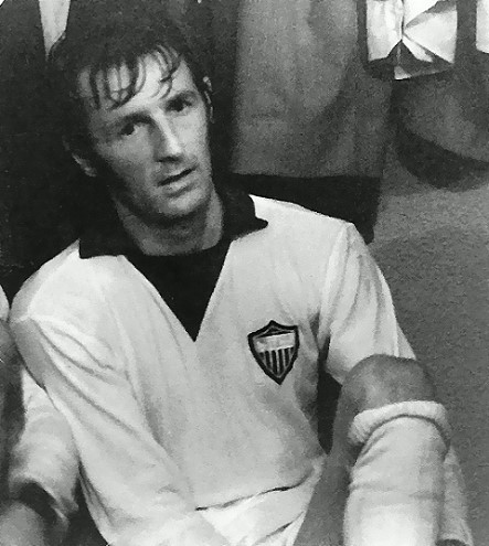 George Eastham whilst playing for Hellenic FC in Cape Town, South Africa